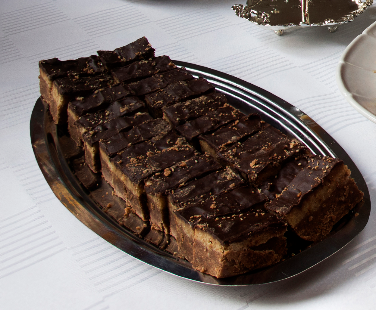 Crop from larger picture of Serbian Christmas dinner.